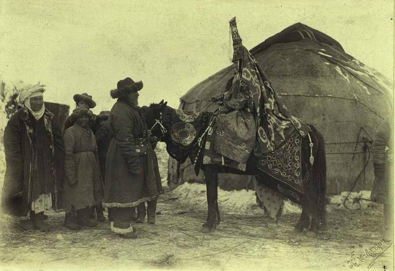 Women with saukele, Kazakh nomades, 19th century.